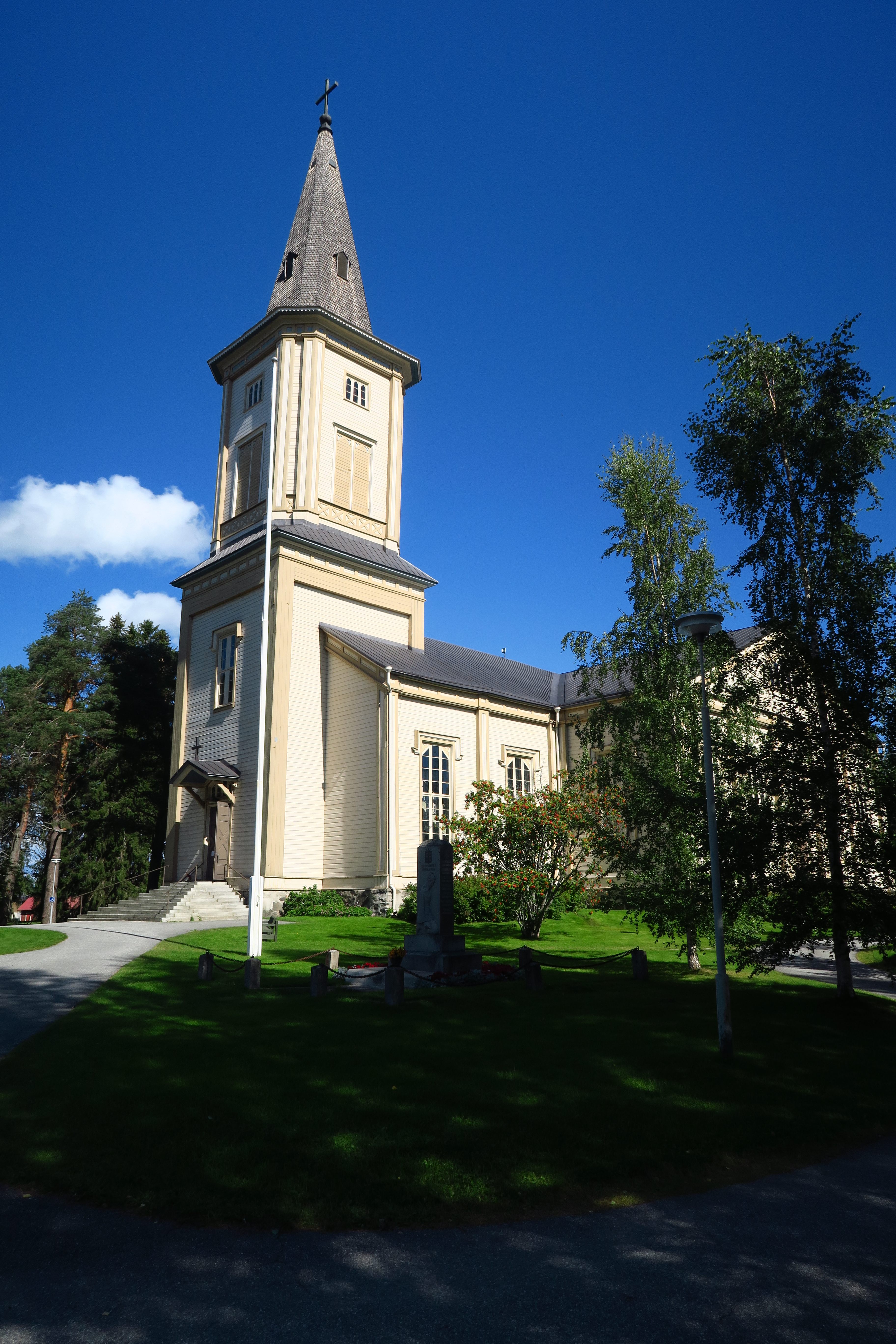 Sotkamo Church in Finland